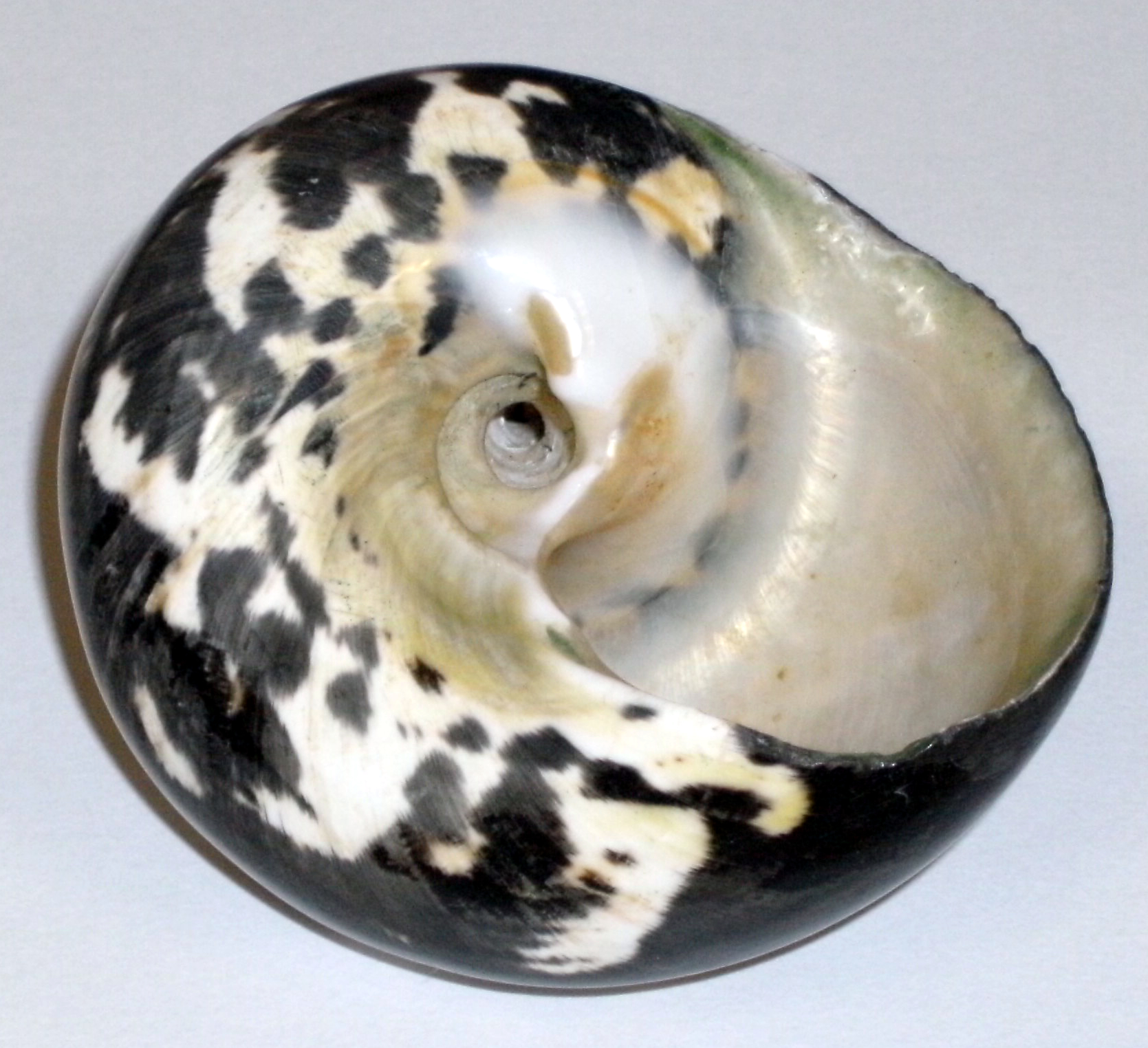 Ventral view of a shell of Cittarium pica, showing the umbilicus